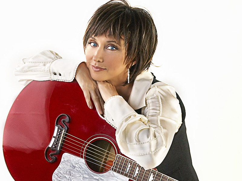 Pam Tillis